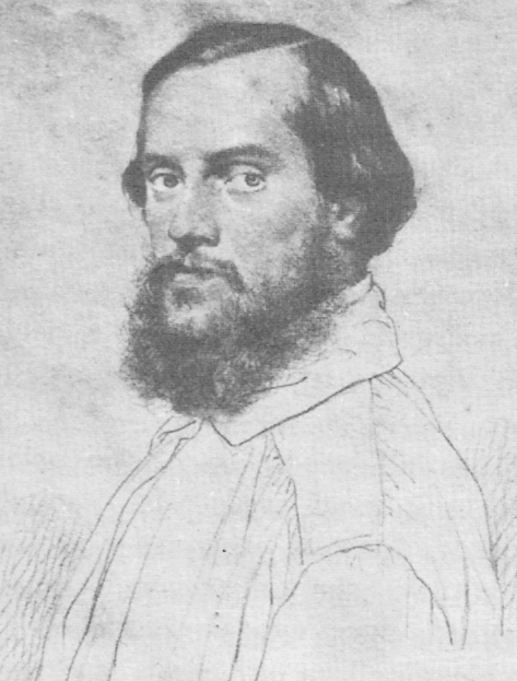 Carlo Pisacane by M. Lorusso.